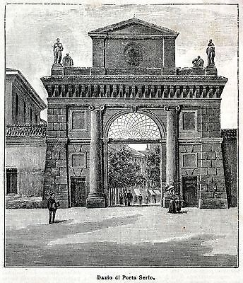 Taken from "Le cento città d'Italia", illustrated monthly supplement of the "Il Secolo", Sonzogno Publisher, Thursday, April 30, 1896. Porta Serio is depicted with the duty tolls.